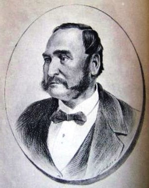 Patrick Goold - MLA for King Williams Town - Cape Colony - from Het Volksblad - Sept 1883